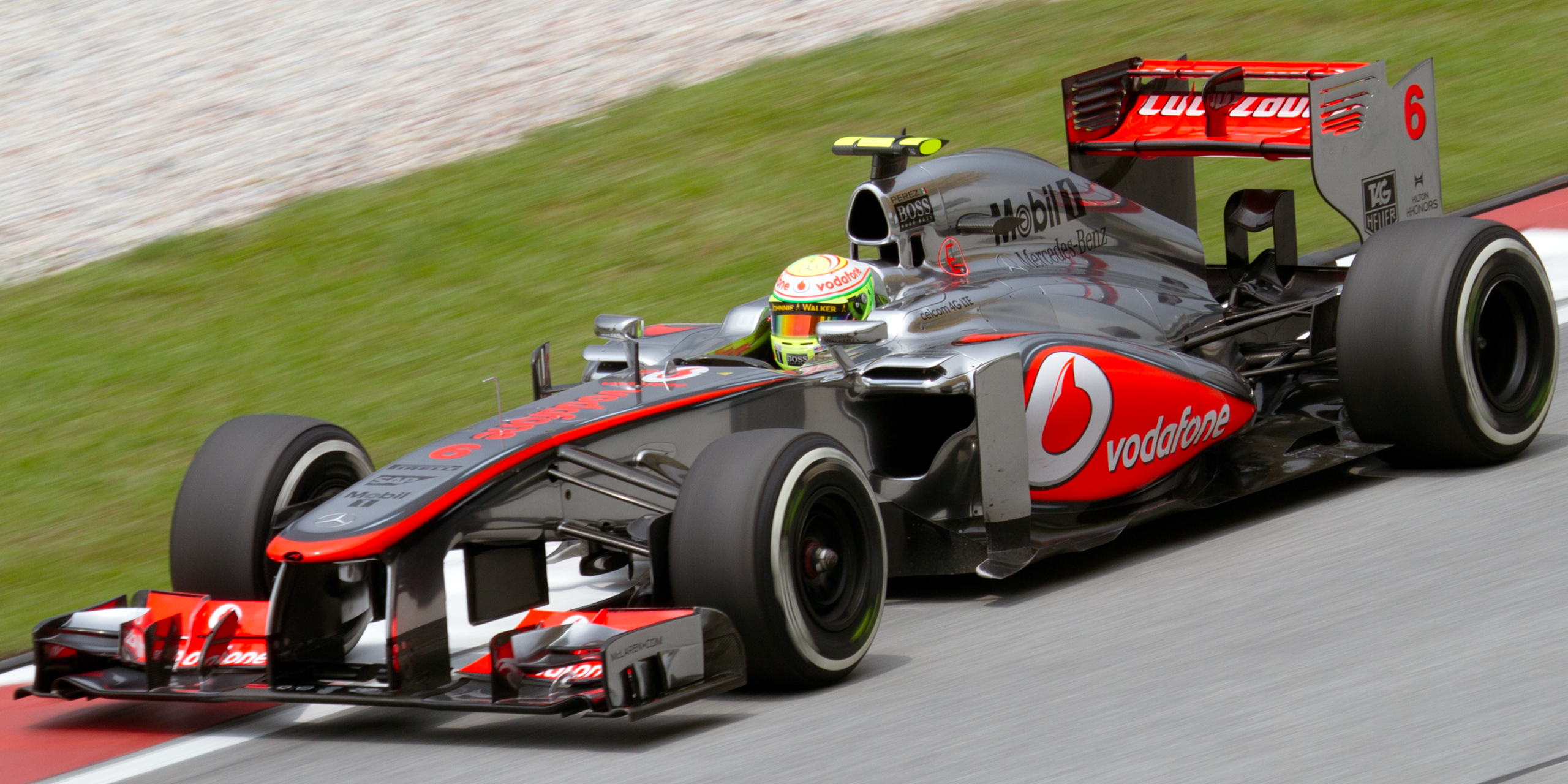 Formula One 2013 Rd.2 Malaysian GP: Sergio Pérez (McLaren) during the second practice session on Friday.